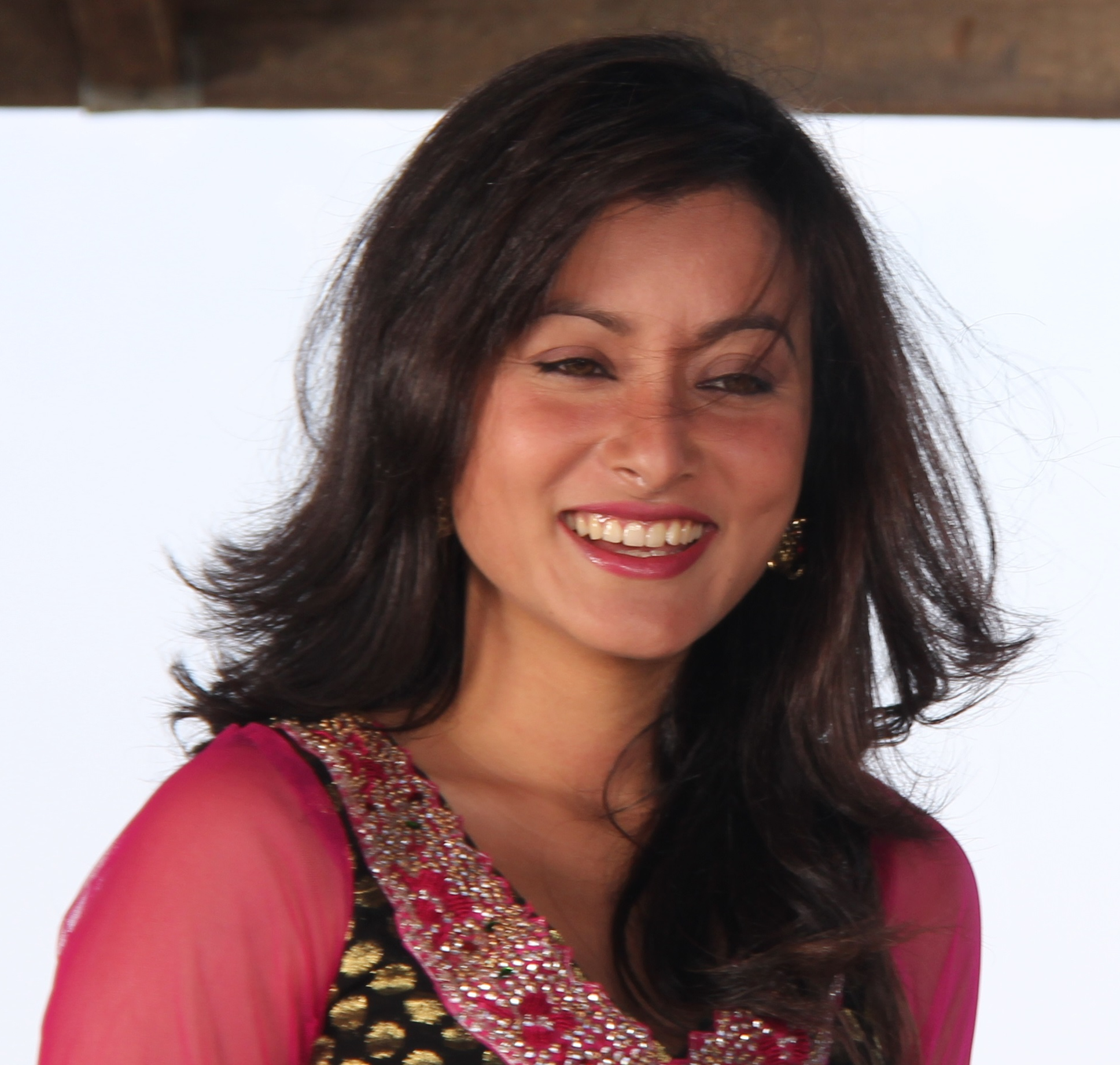 Cropped for Profile picture